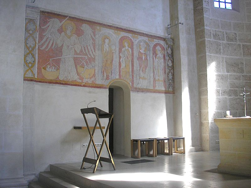 St. Michael (Altenstadt bei Schongau, Obb.). Gotisches Fresko im Chor. Eigene Aufnahme, Sept. 2006 / St. Michael (Altenstadt near Schongau, Upper Bavaria, Germany). Gothic wall painting in the choir. Own photo, Sept. 2006